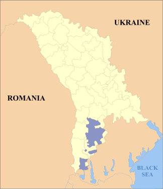 This map has been uploaded by Electionworld from to enable the Wikimedia Atlas of the World . Original uploader to was Anonimu, known as Anonimu at . Electionworld is not the creator of this map. Licensing information is below.